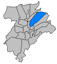 Map of Luxembourg City, Luxembourg, with the boundaries of the city's twenty-four quarters demarcated and the quarter of Kirchberg highlighted in blue.